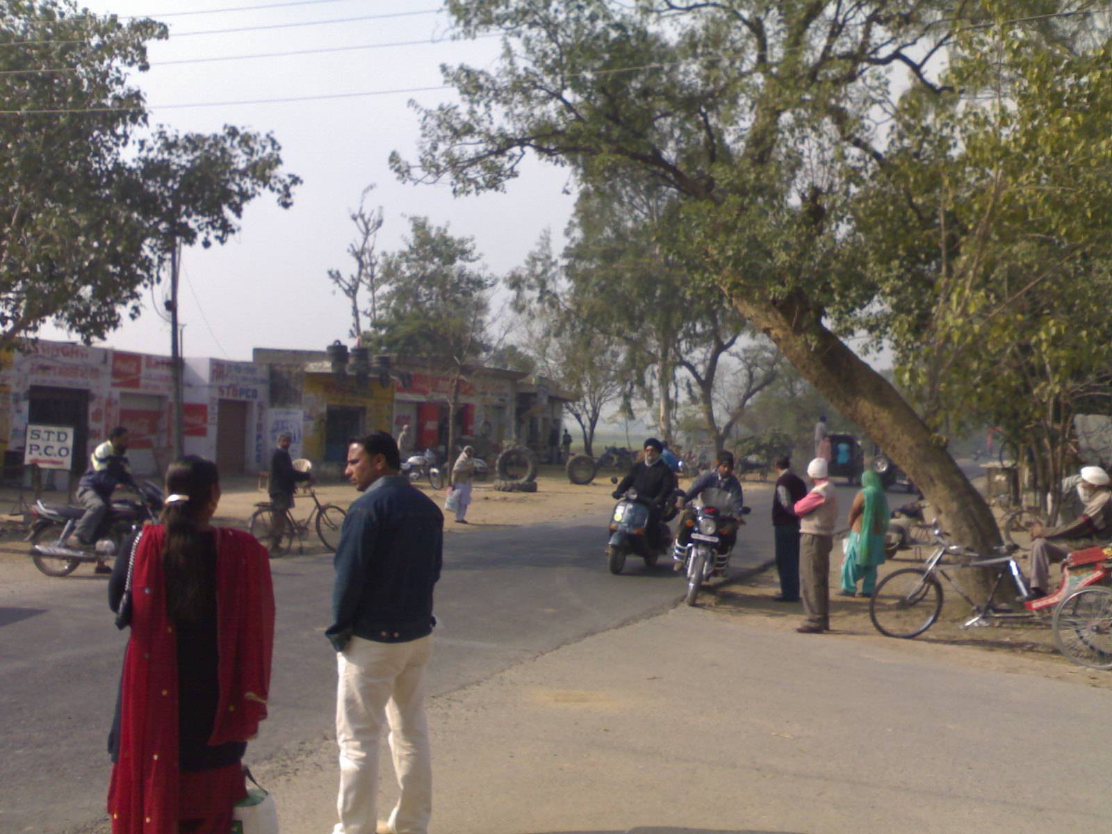 People walking and riding motorcycles in Addhi Khuyi